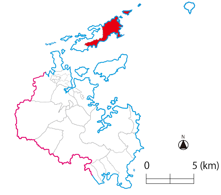 This map also indicates the Toshi junior high school and elementary school district.